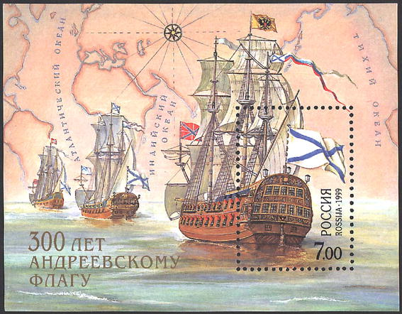 Stamps of Russia The 300th anniversary of St.Andrew's flag, 1999